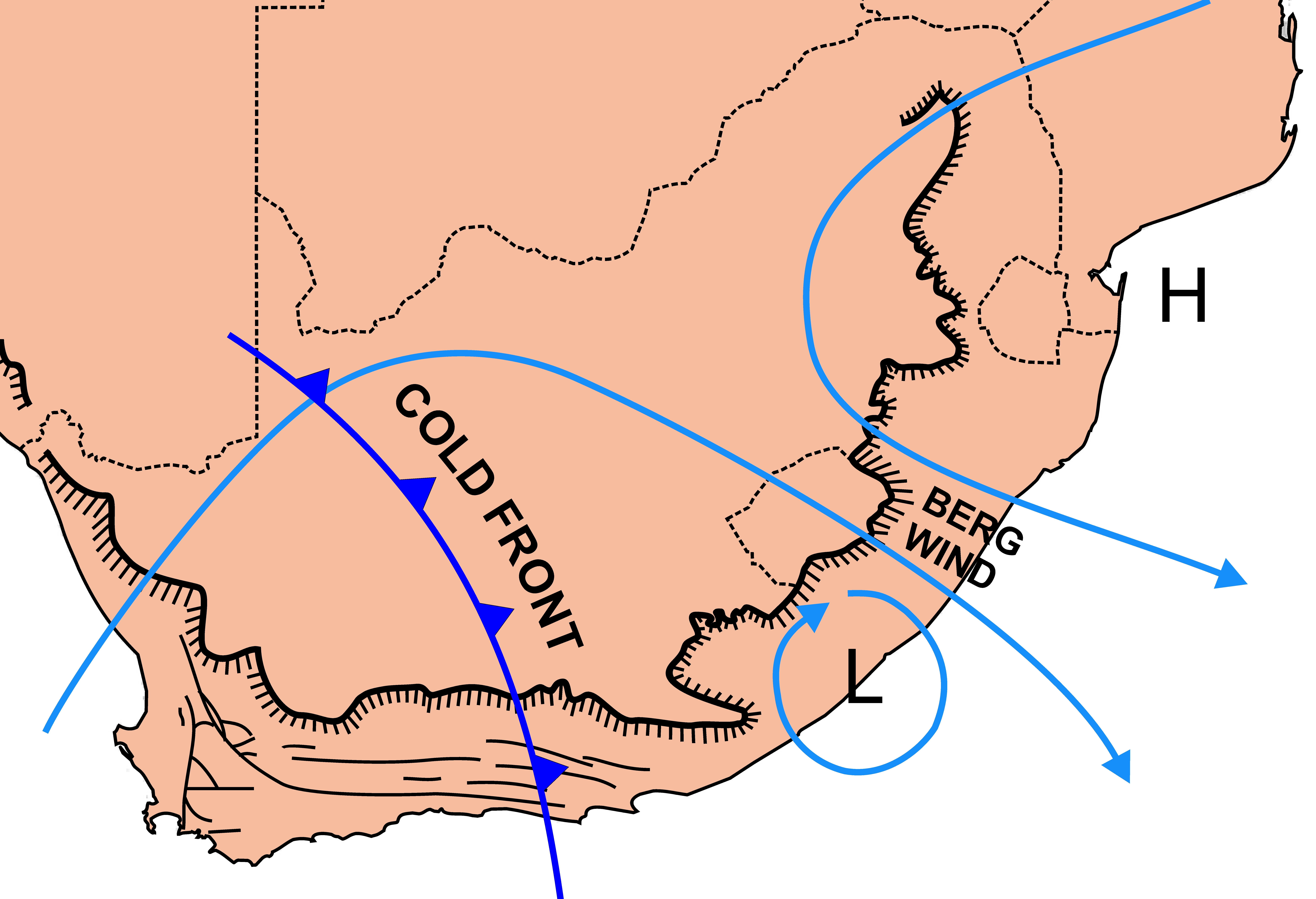 A modification of the map of Southern Africa drawn by User:Oggmus to illustrate the typical synoptic conditions that lead to the development of a Berg wind and coastal low.